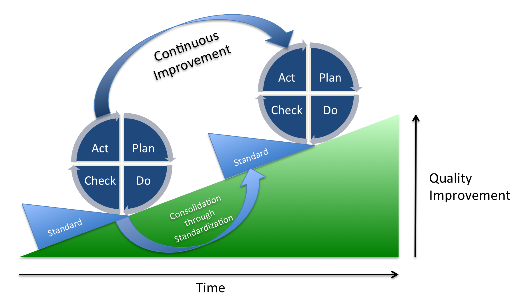 Depiction of the PDCA cycle (or Deming cycle). Continuous quality improvement is achieved by iterating through the cycle and consolidating achieved progress through standardization.